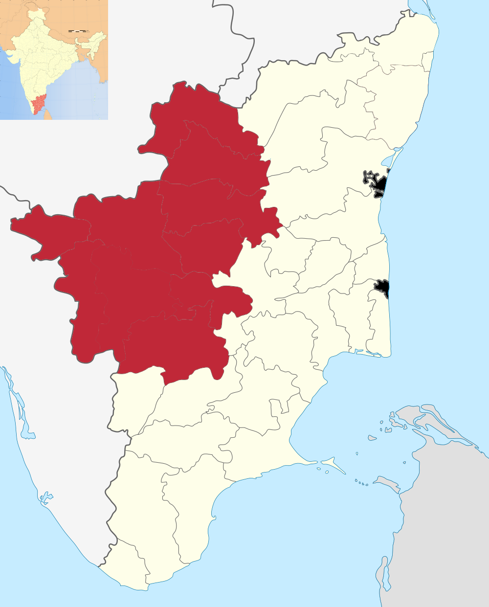 The region of Kongu Nadu within the Indian state of Tamil Nadu